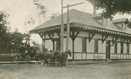 Potter Place Railroad Station; Andover, NH; from a 1906 postcard.